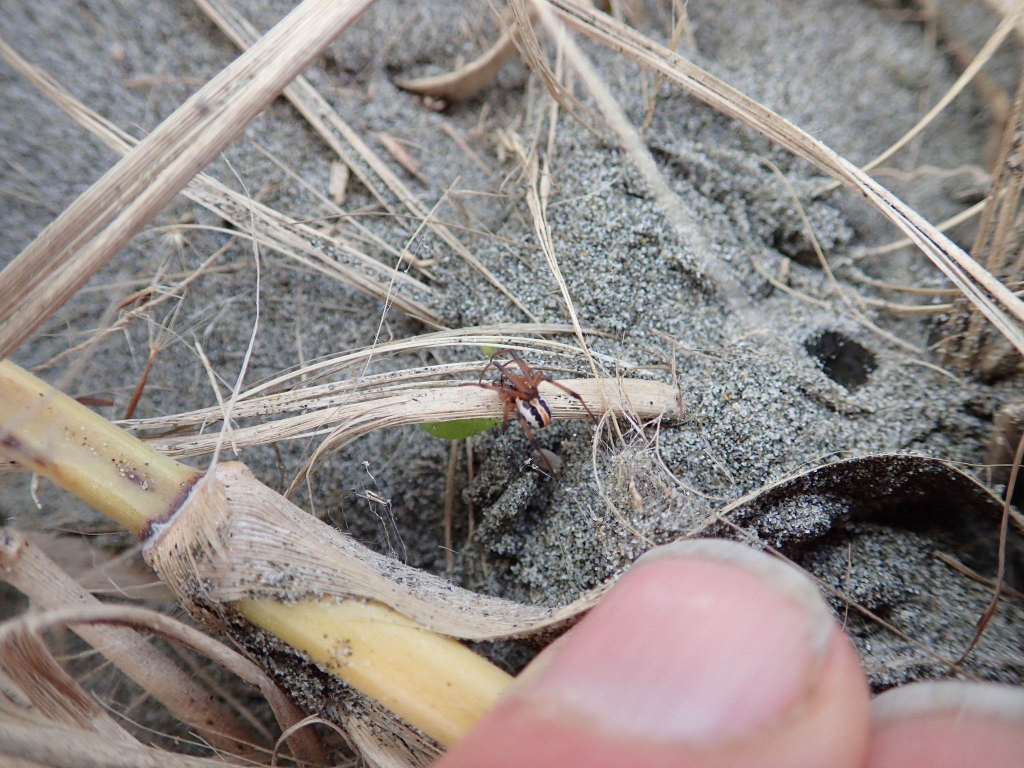 Male Katipo (Latrodectus katipo)